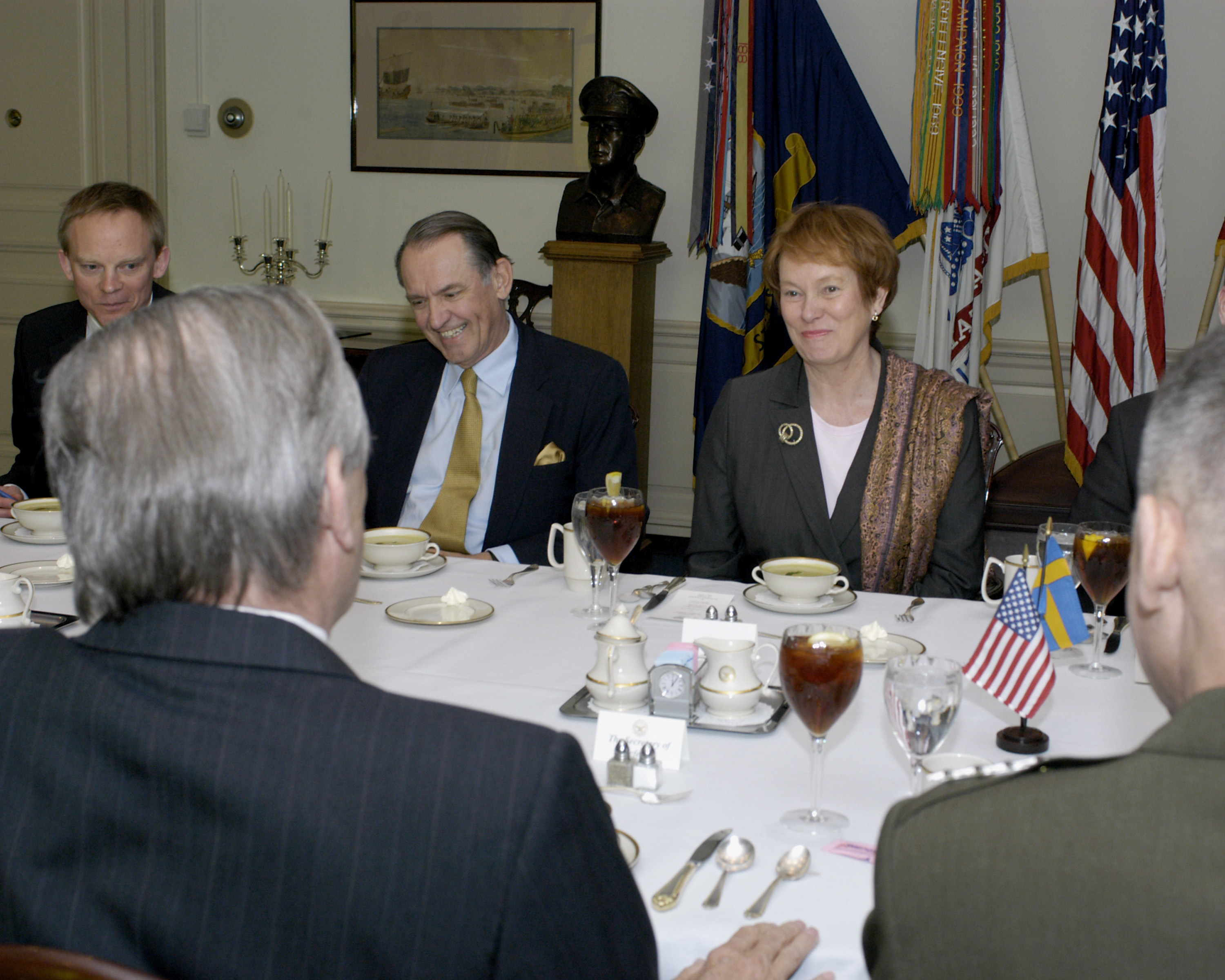 Secretary of Defense Donald H. Rumsfeld (left foreground) hosts a working luncheon for Swedish Minister of Defense Leni Bjorklund in the Pentagon on May 2, 2005. Rumsfeld and Bjorklund are meeting to discuss defense issues of mutual interest. From left to right, Military Advisor Rear Adm. Stefan Engdahl, Swedish Ambassador to the U.S. Jan Eliasson, and Vice Chairman of the Joint Chiefs of Staff Gen. Peter Pace, U.S. Marine Corps (foreground right).